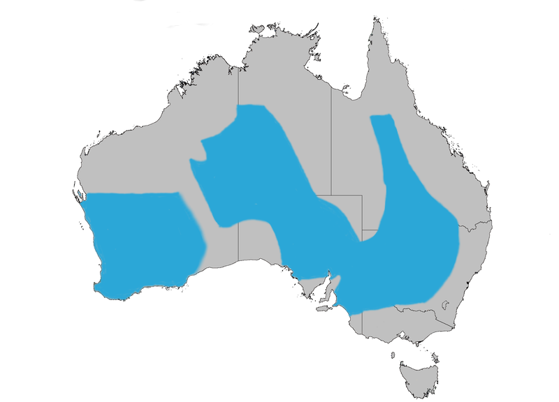 Splendid Fairy Wren -- Distribution map